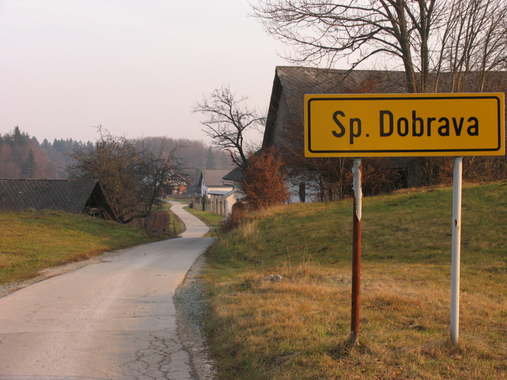 Spodnja Dobrava